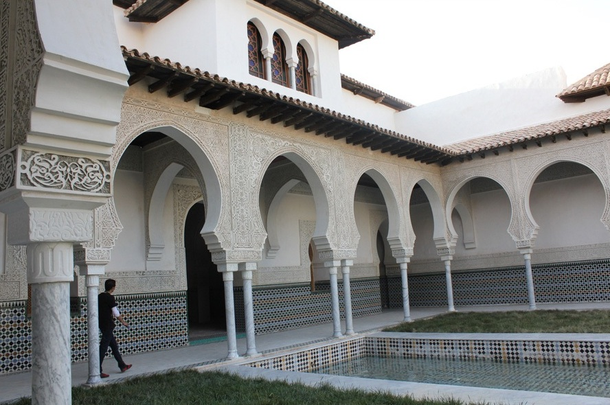 zayynid palace in Tlemcen, Algeria (middle age)